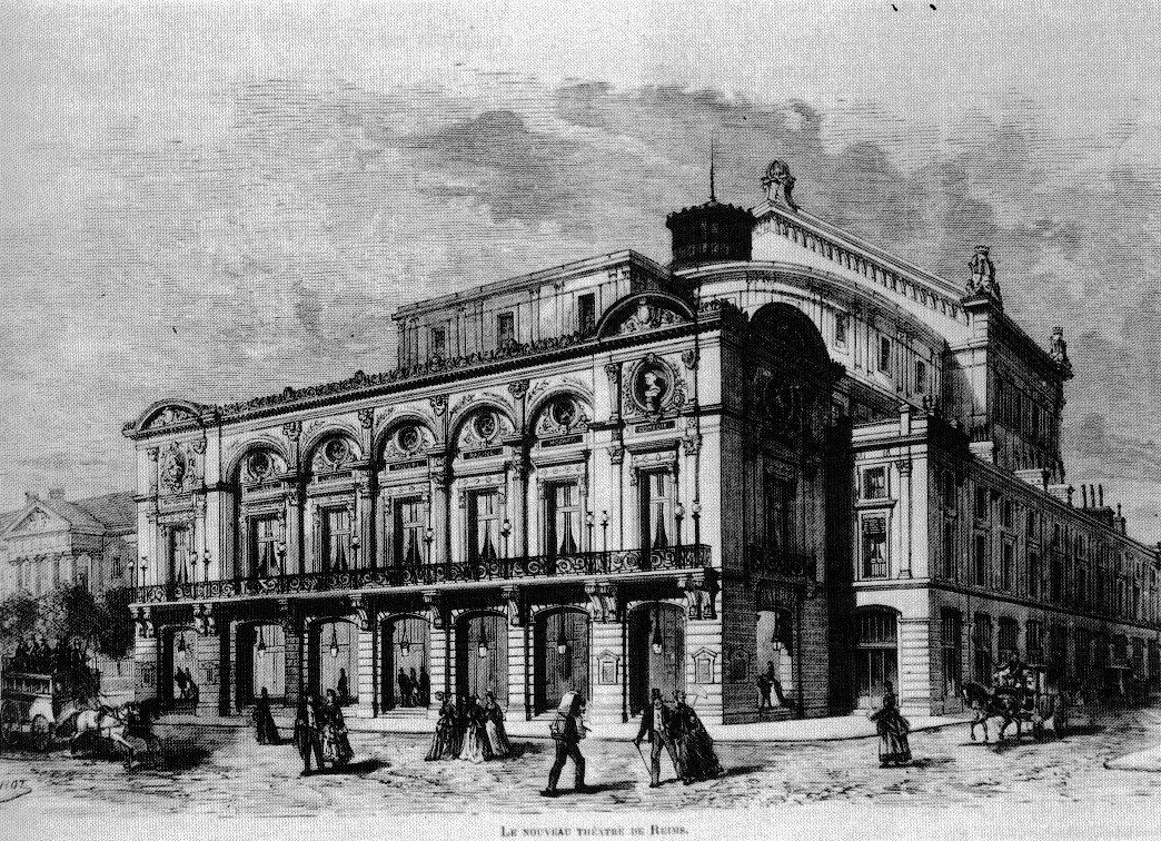 Horse powered omnibuses in front of the Theatre of Rheims.